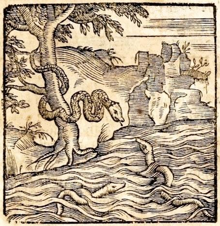 An illustration of the fable of "The Eel and the Snake" (Anguilla et serpens) from a 1590 edition of Gabriele Faerno's collection of Aesop's Fables